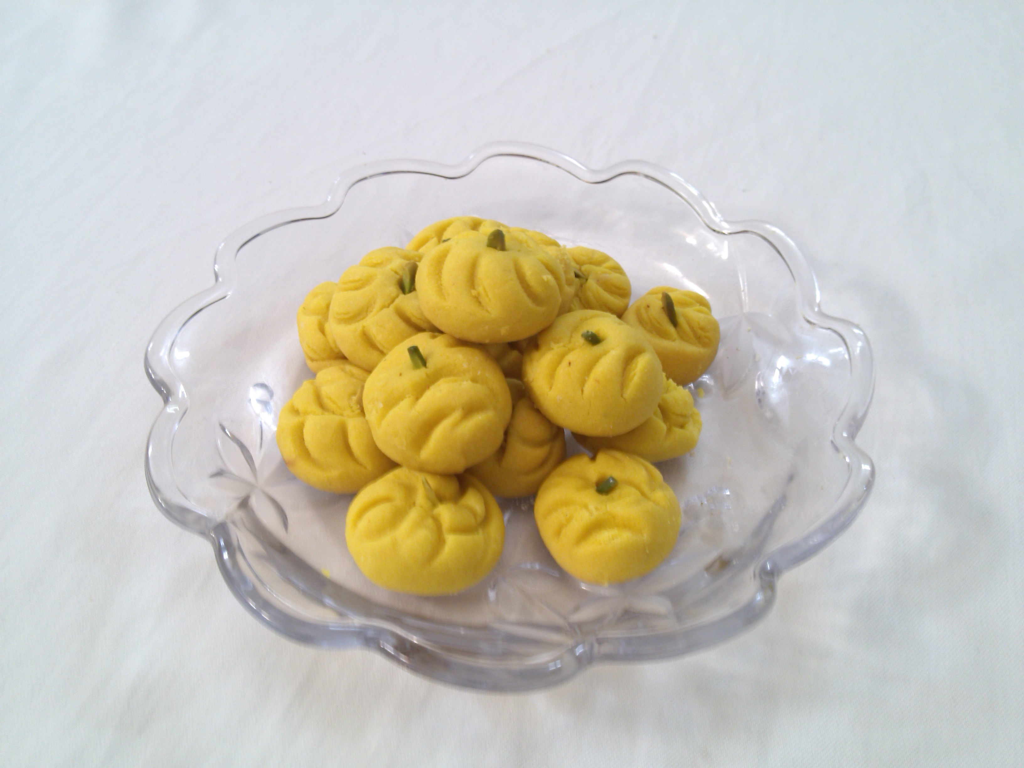 Āb Dandoon